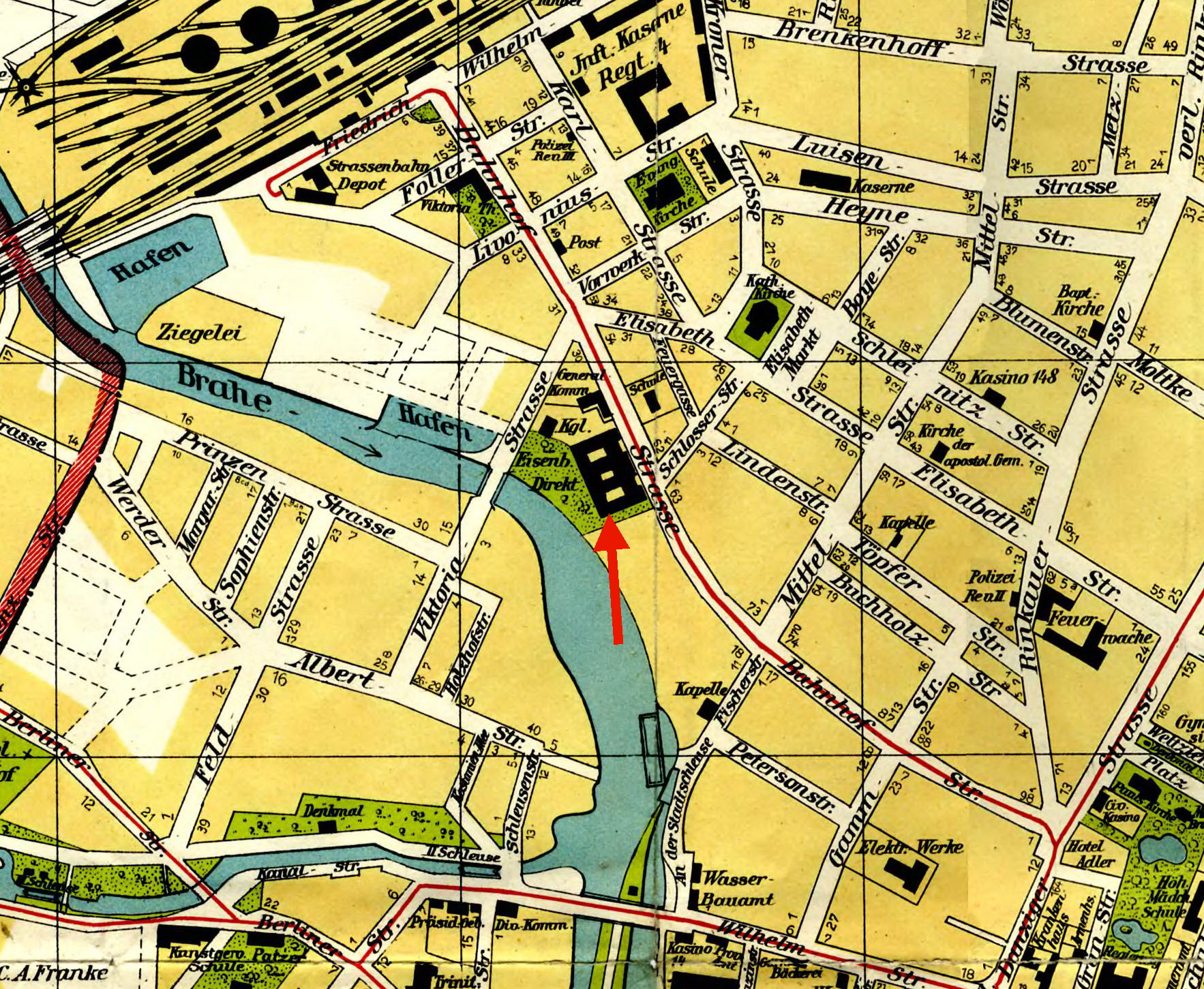 Prussian railways directotate Bydgoszcz